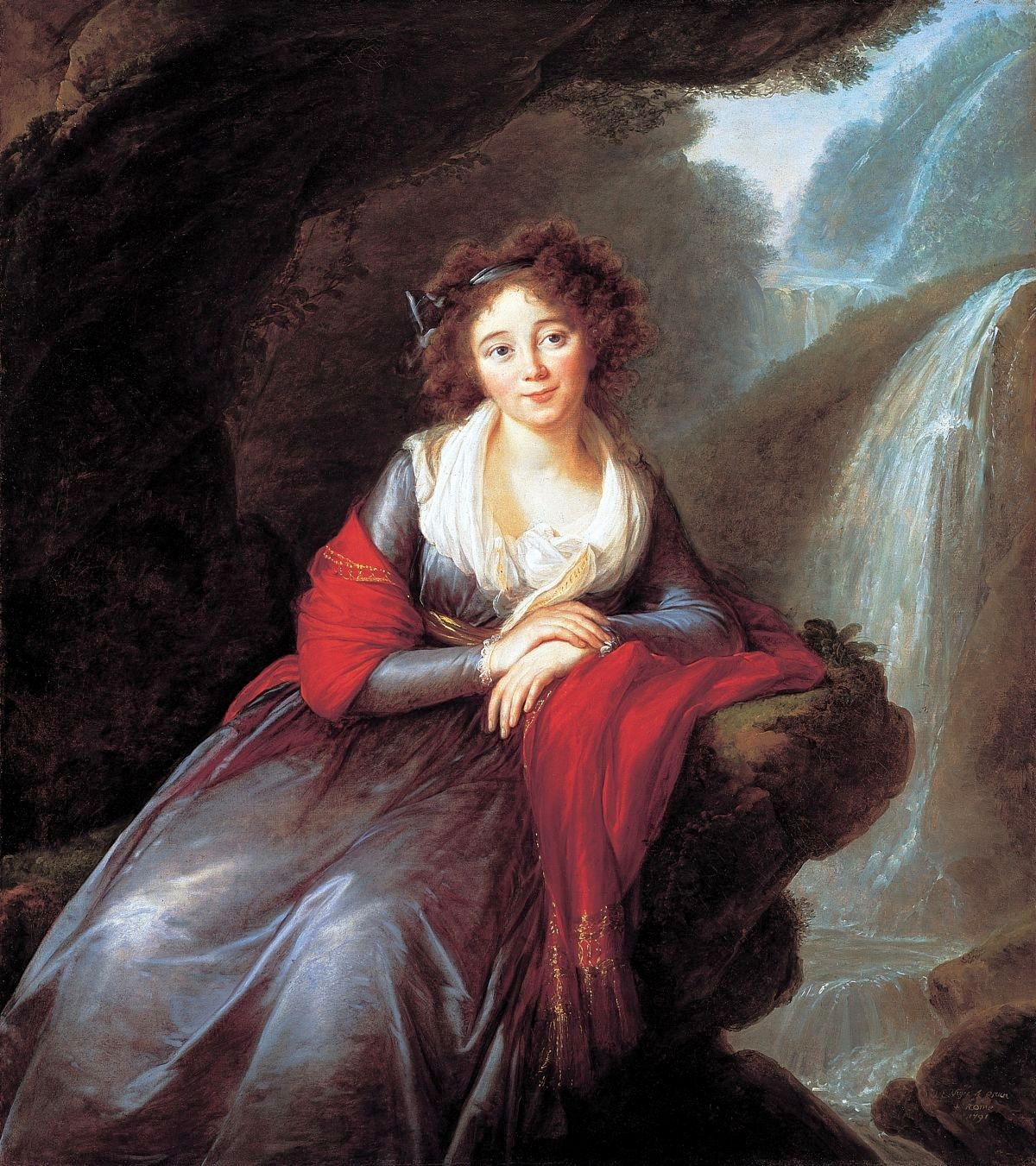 Anna Cetner, future Duchess of Elbeuf